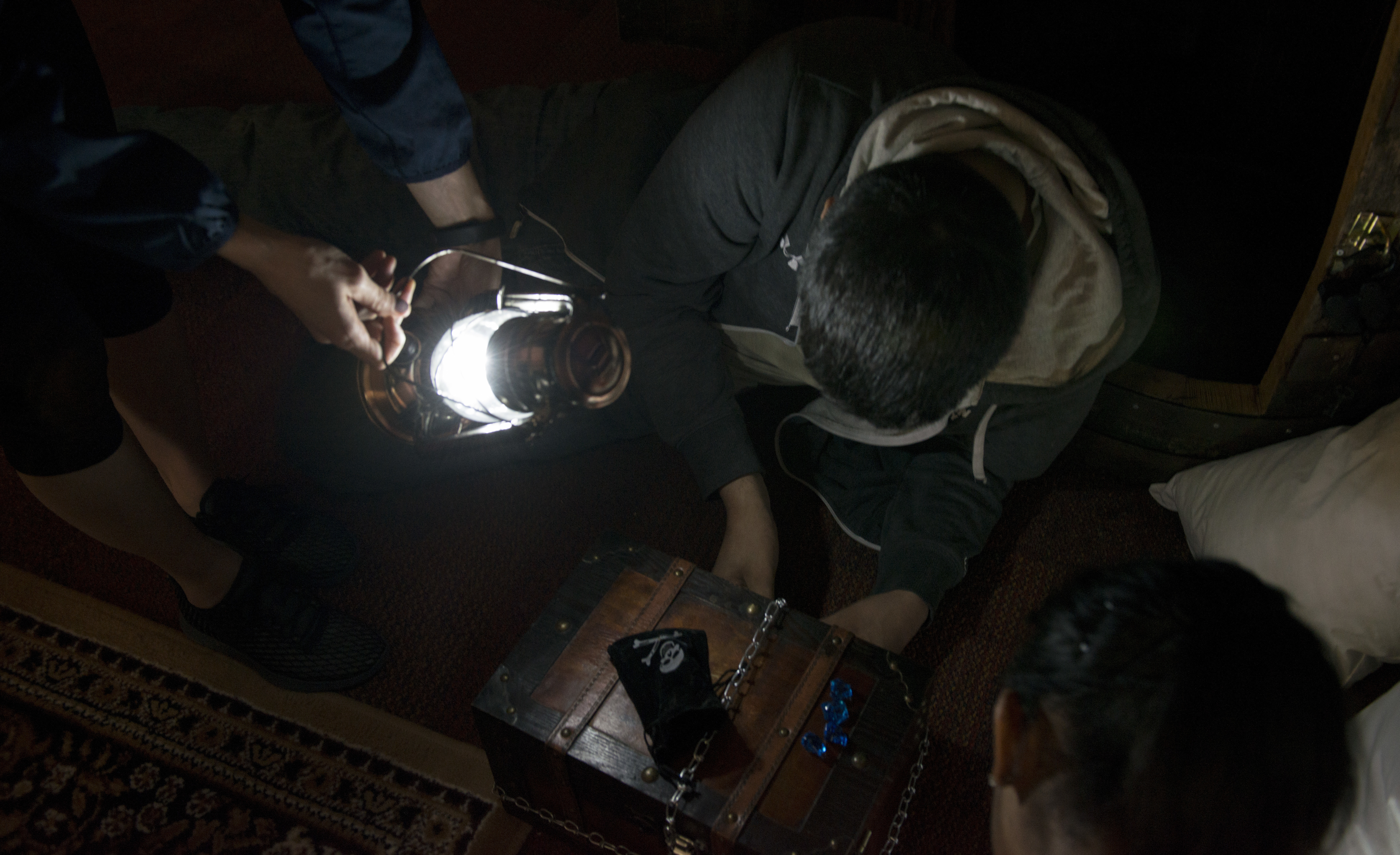 Participants of the 86th Force Support Squadron Vogelweh Community Center’s Port Royal Mystery Escape Room attempt to unlock a chest June 21, 2016, at Vogelweh Military Complex, Germany. The escape room is a pirate-themed event where participants have one hour to solve riddles and puzzles to get out of a room, and the community center is slated to unveil a grand opening of the event June 24, 2016, at the Crossroads Community Center Annex. (U.S. Air Force photo/Airman 1st Class Tryphena Mayhugh) Unit: 86th Airlift Wing